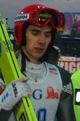 FIS Ski Jumping World Cup in Zakopane, 2003